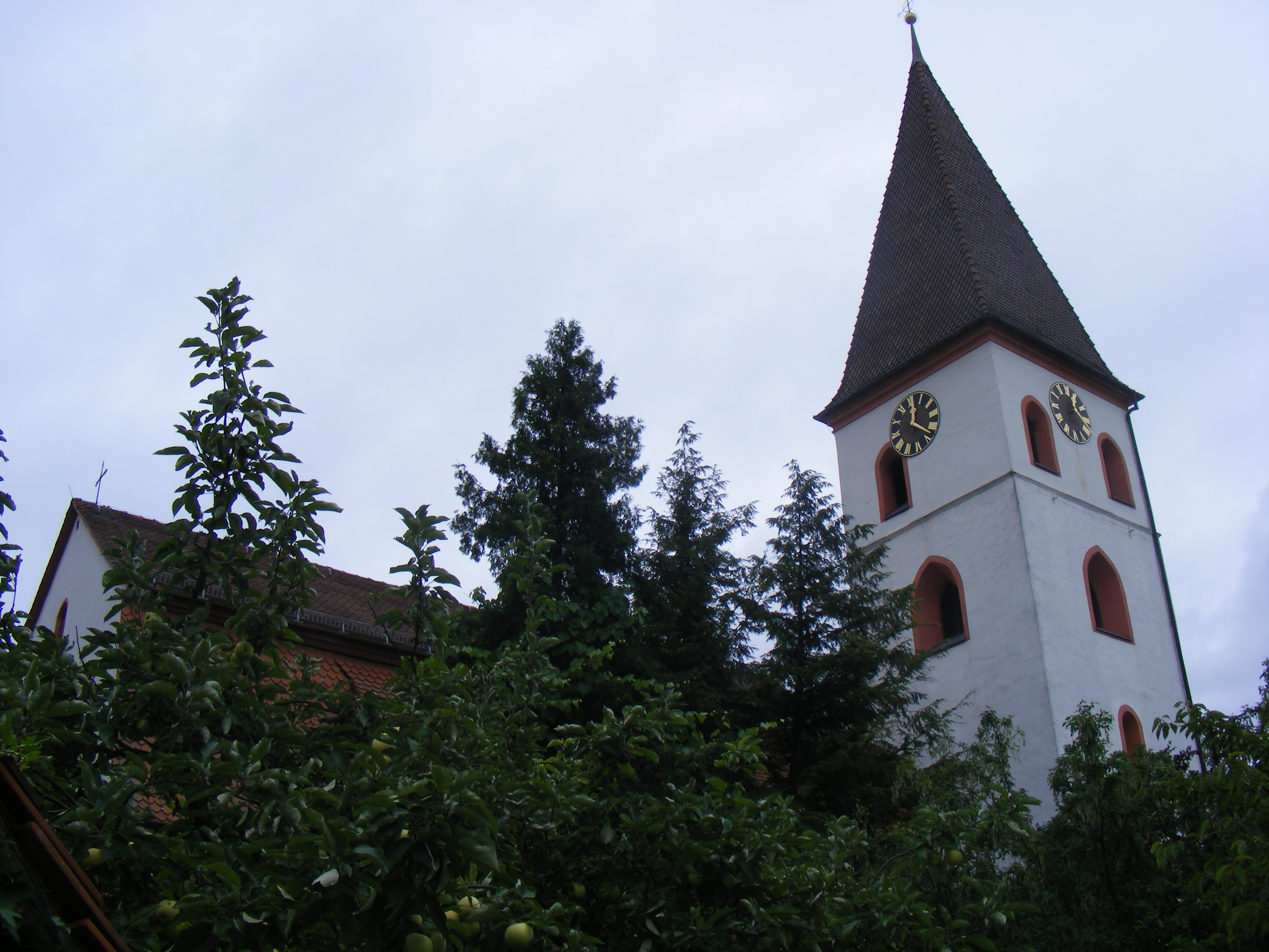 Church St. Georg, Happburg. Bavaria, Germany